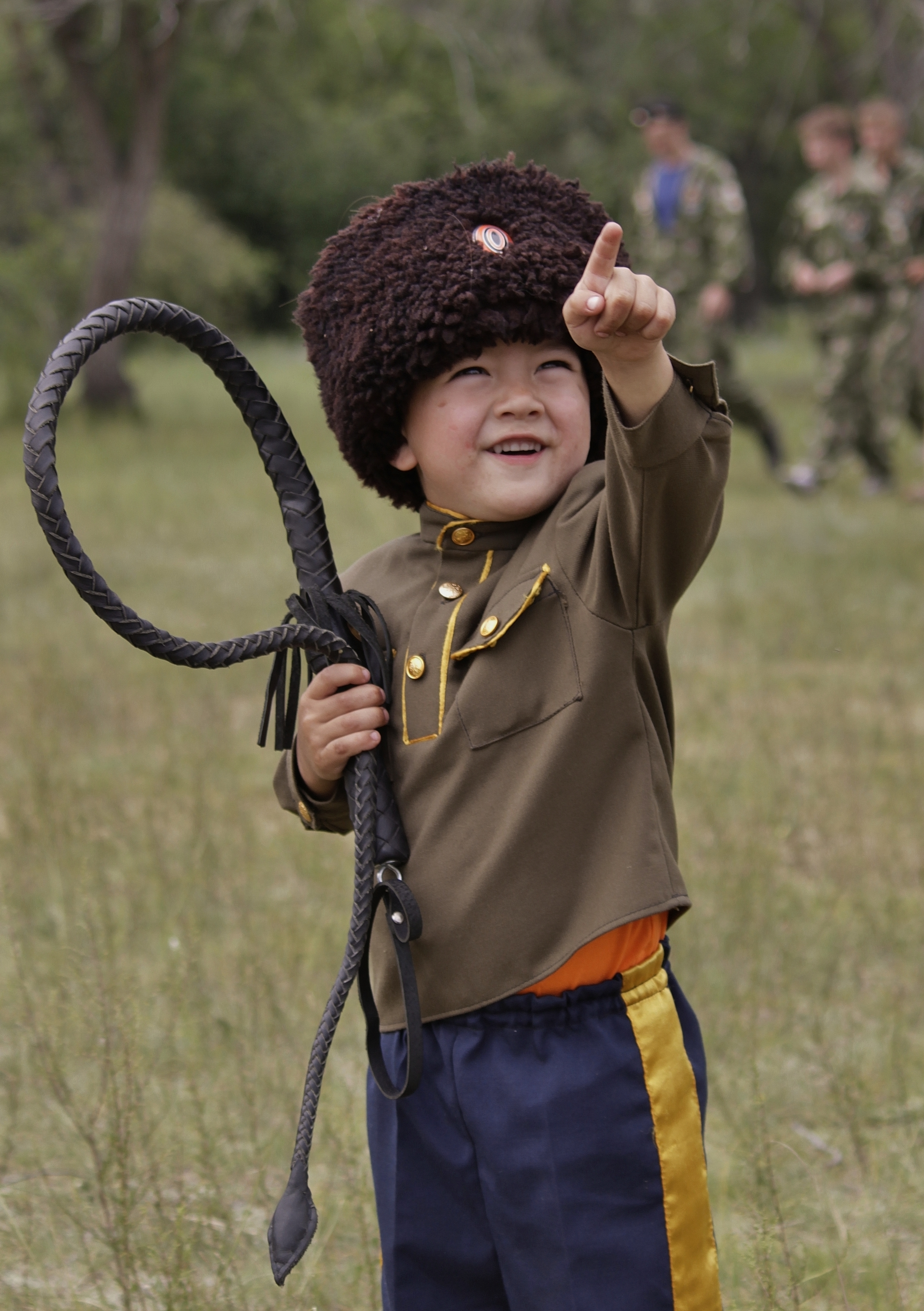 Ivan Kudryavtsev, four, in the Transbaikal Cossack village of Bayan, Dzhidinsky district, Buryatia, Russia.